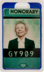 Eloise Page, as pictured on her ID badge